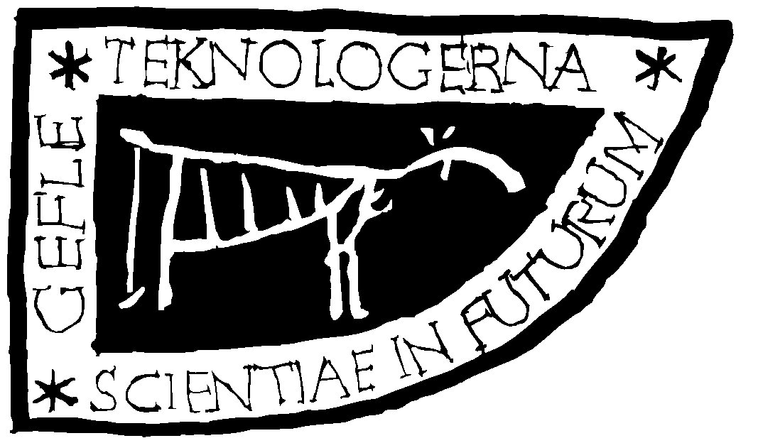 Logotype for Gefleteknologerna